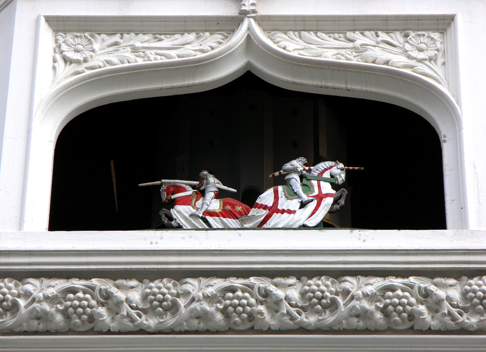 London Court Perth, WA, taken by SeanMack.